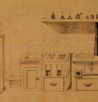 Drawing of the cooker where Henri Désiré Landru burned his victims, drawn by Landru himself.